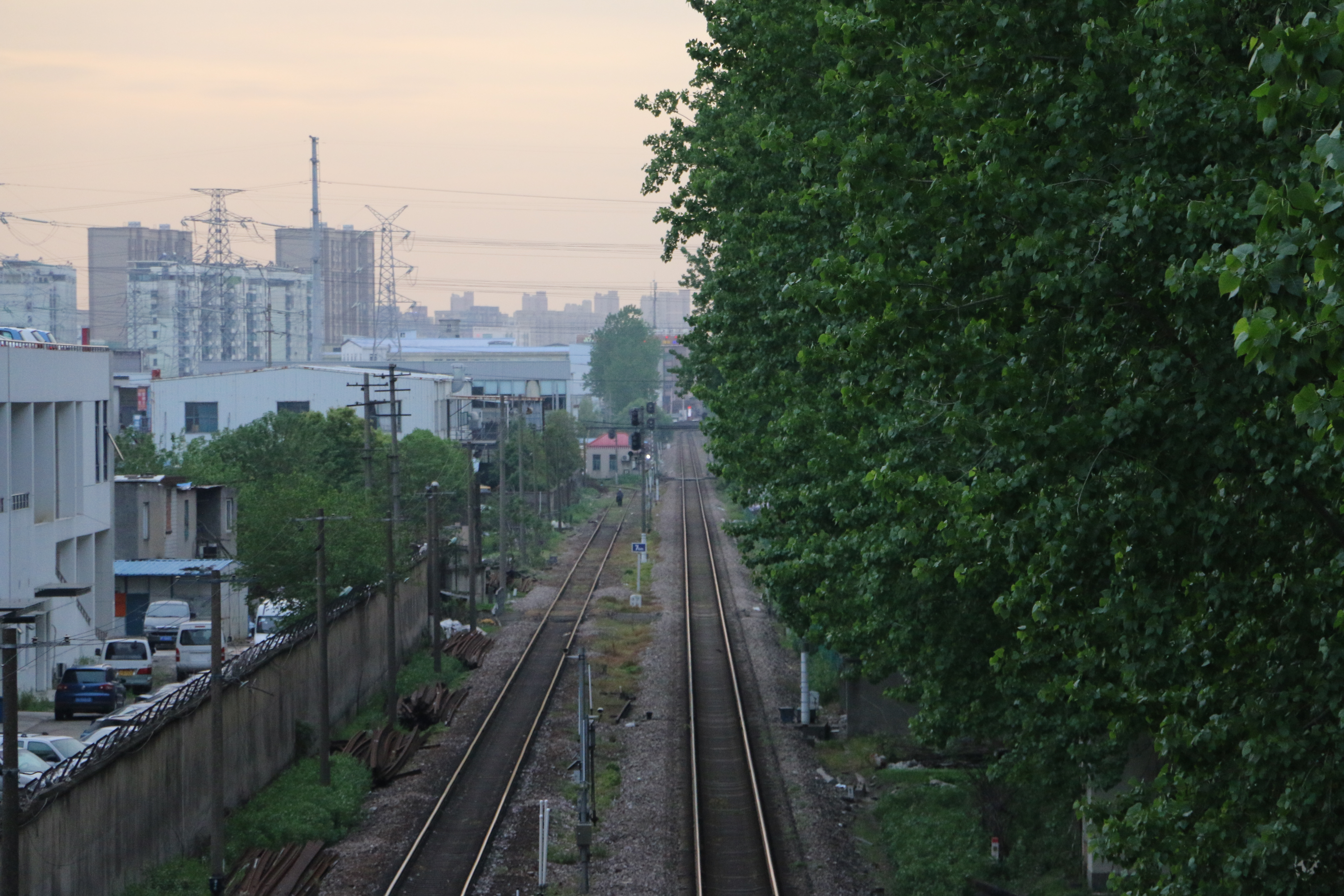 201604 Nanxiang–Hejiawan Railway near Beijiao